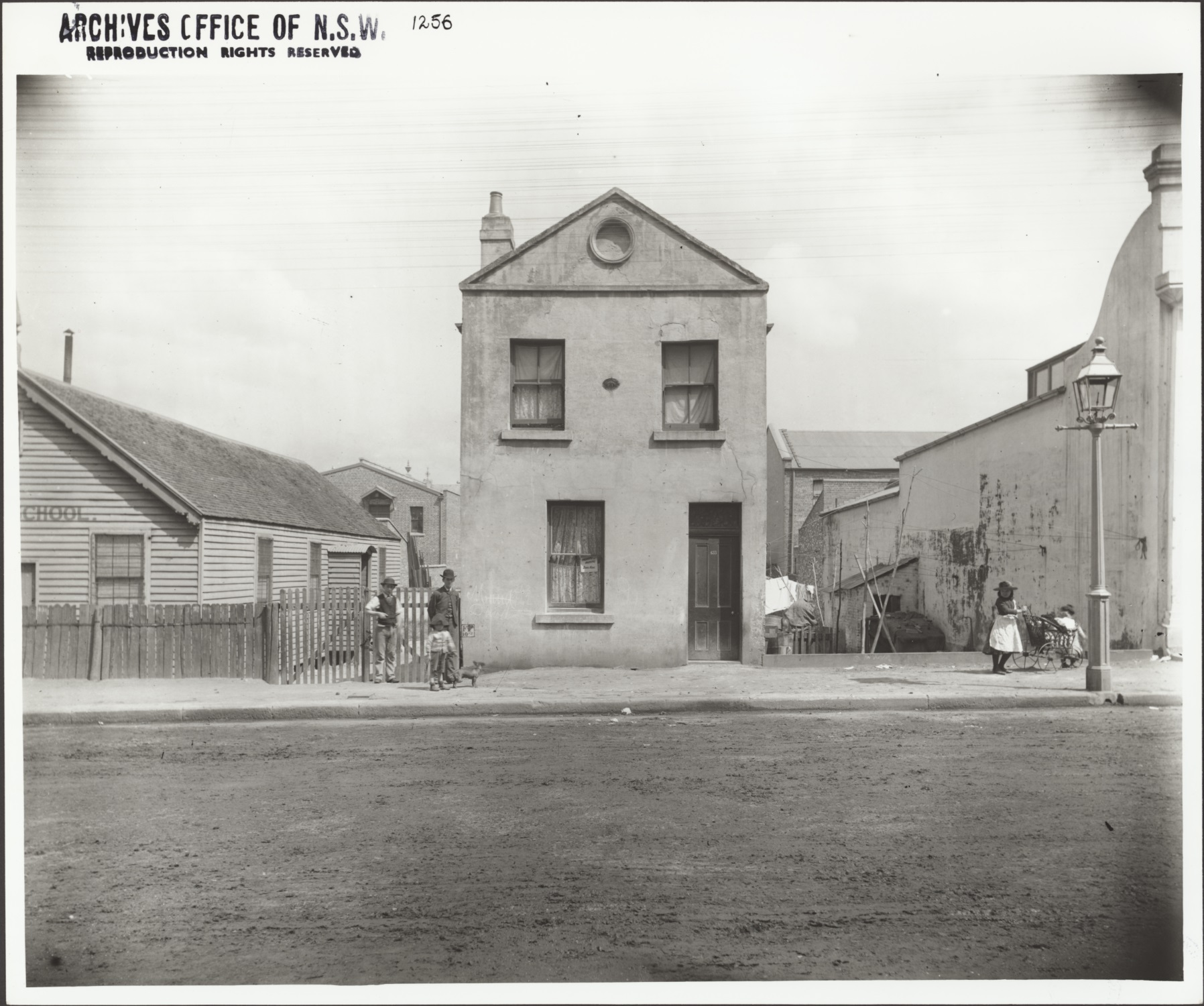 A dwelling in an unidentified street at Sydney's The Rocks, date unknown.